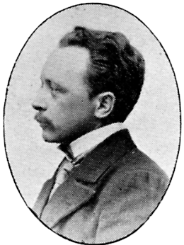 Image scanned from the book "Svenskt Porträttgalleri XX - Arkitekter, Bildhuggare, Målare m.fl. " ("Swedish Portrait Gallery XX - Architects, Sculptors, Painters, ") published 1901